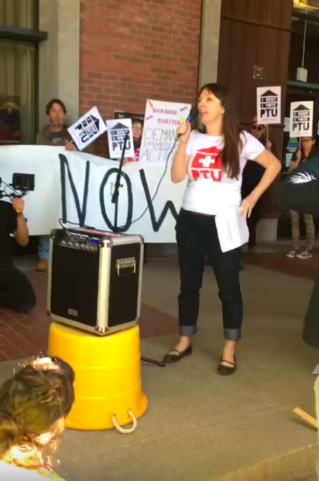 In April 2016 Portland Tenants United (PTU) and other Portland organizations rallied at the Multnomah County Building in southeast Portland, Oregon USA to demand rent control and other policies to elevate tenant rights to secure housing above landlord rights to profit from owning housing property, before entering to demonstrate at a meeting of the Multnomah County Commission (the county governing body). Margot Black, a PTU leader, addressed the crowd for about 12 minutes. A video of her speech was made by London Klauer and uploaded to YouTube on April 10, 2016: . This image is a screen shot from the video, posted by London Klauer on Flickr under a Creative Commons Share-Alike license on April 28, 2020.